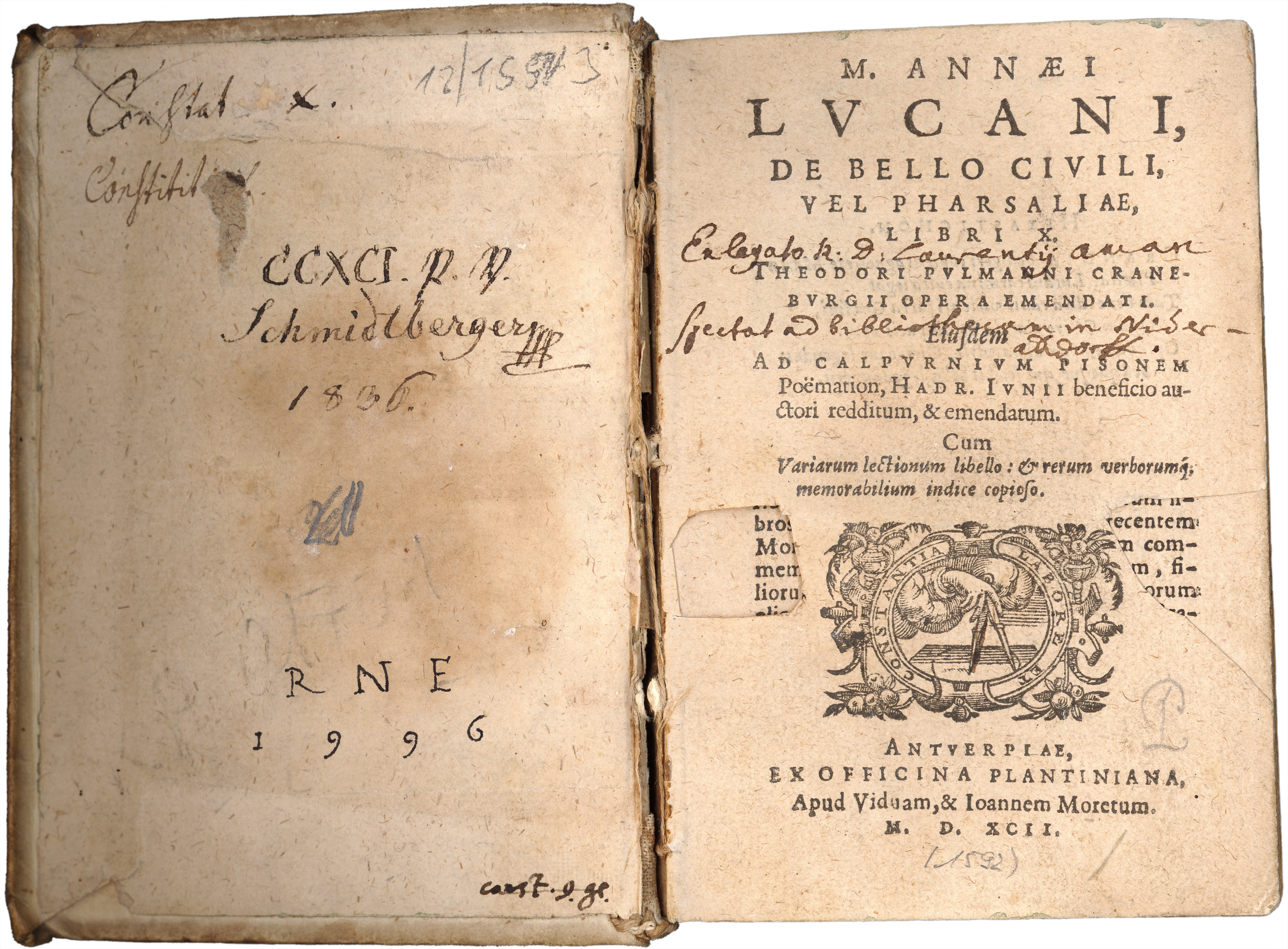 Title page of Lucan’s De bello civili (alias Pharsalia), edited by Theodor Pulmann (also Pulman or Poelmann), printed by the Officina Plantiniana (Plantin) and Johannes/Jan Moretus in Antwerp in 1592. On the title page you see the Plantin printer’s emblema. On the title page and on the endpaper at the left side different old and new owner notes. — Lucan’s poem was always especially popular in times of civil wars or other kinds of general conflicts. This little edition is a good example, because it was prepared and published during the French Wars of Religion (1562–98), as Theodor Pulmann mentions in his preface. He explains the special actuality of Lucan by this fact.